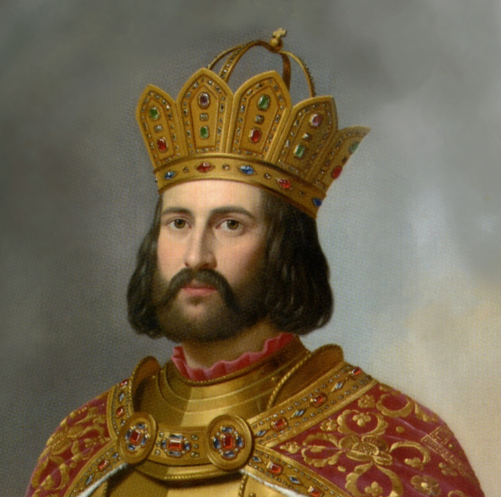 Otto IV, Holy Roman Emperor (ca. 1176-1218)